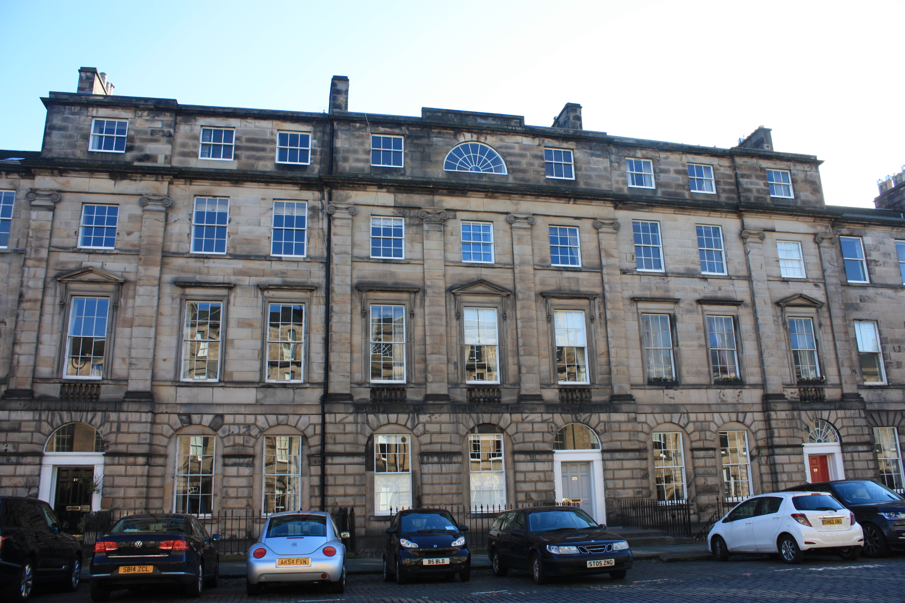 19 to 25 Great King Street, Edinburgh